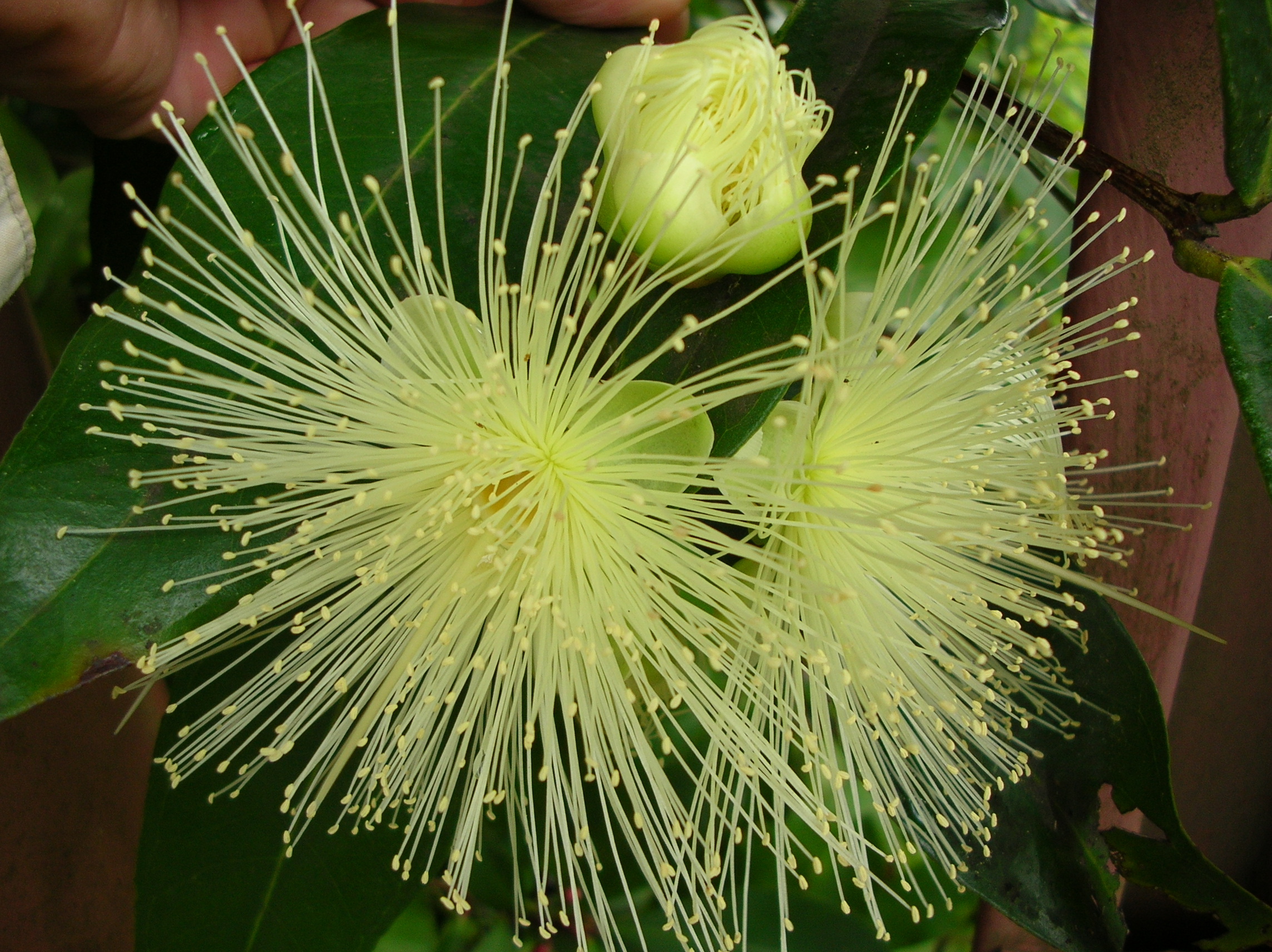 Syzygium jambos (flowers). Location: Maui, Hana Hwy